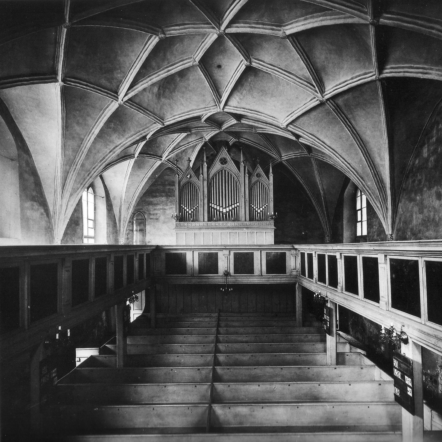 The Chapel of the Holy Spirit in Spandauer Strasse in Berlin-Mitte (Germany). Interior.